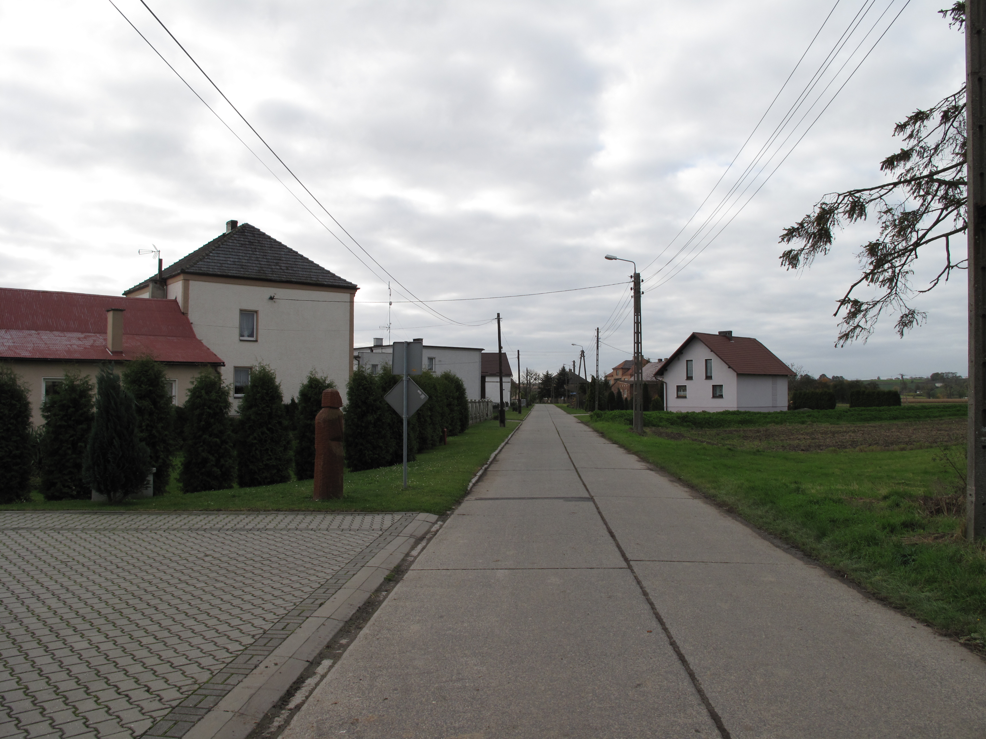 Lasaki. Racibórz County, Poland.